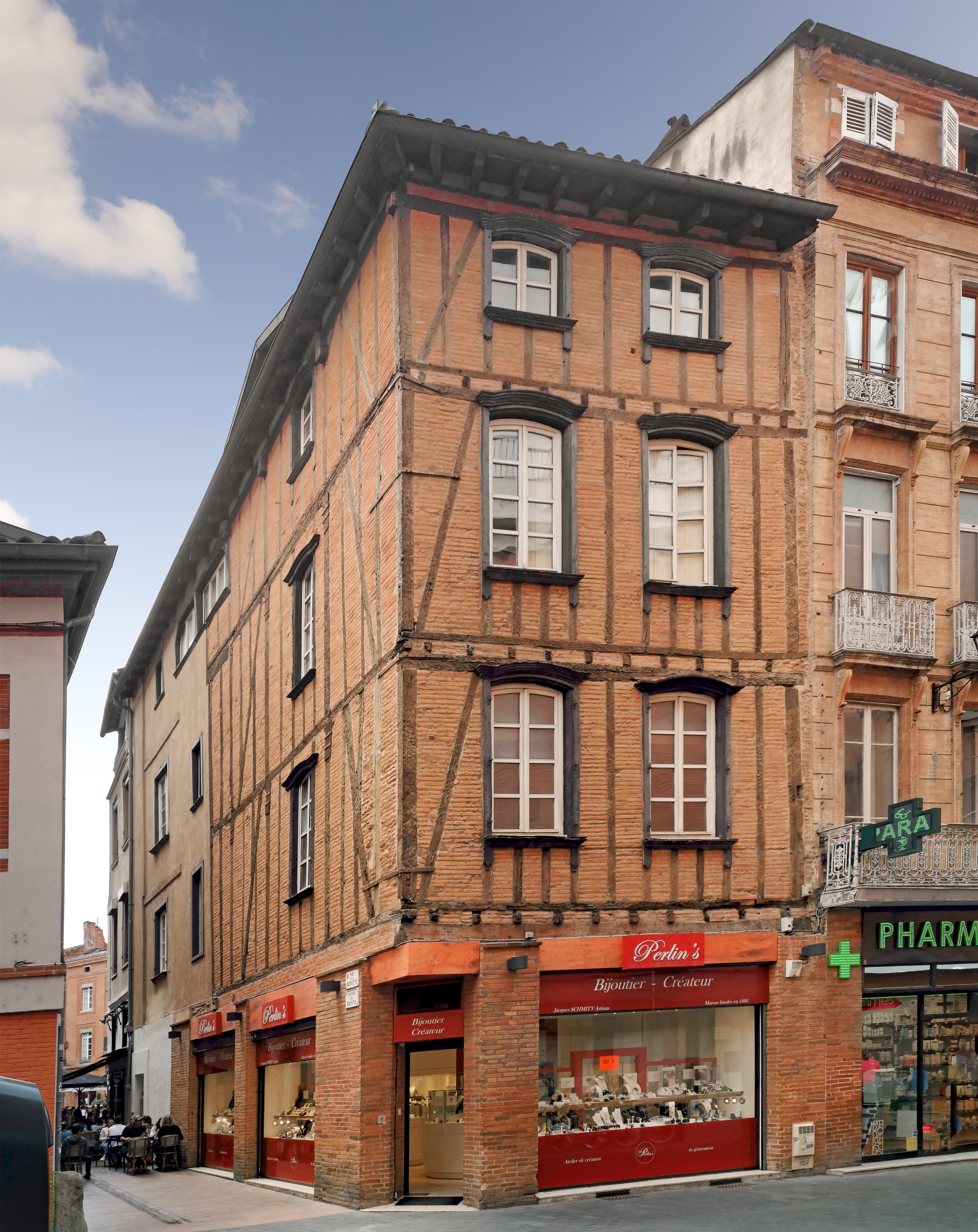 Half-timbered house, 49 Rue de la Pomme in Toulouse